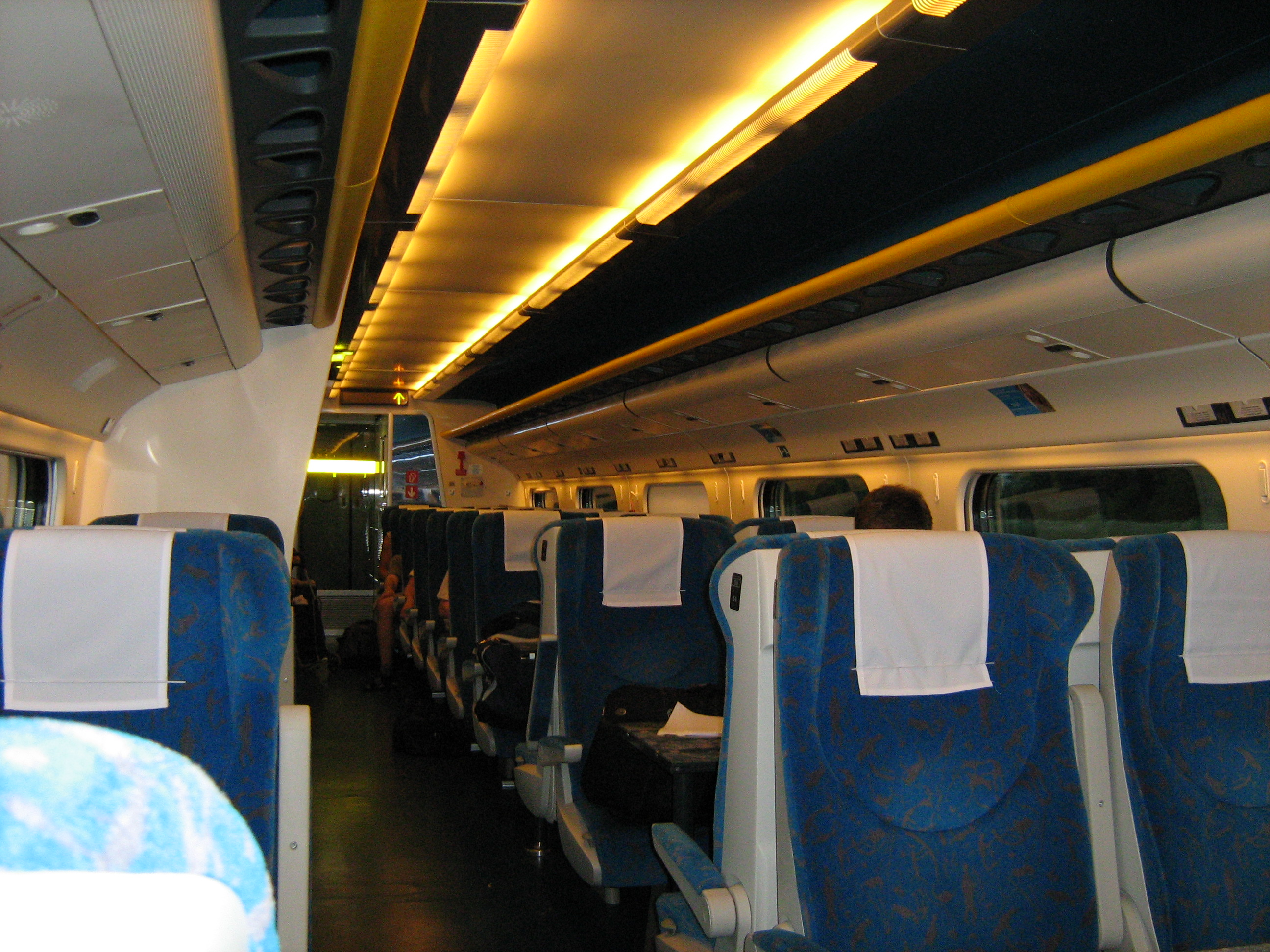 Interior view of the 2nd class in a ČD SuperCity-Train